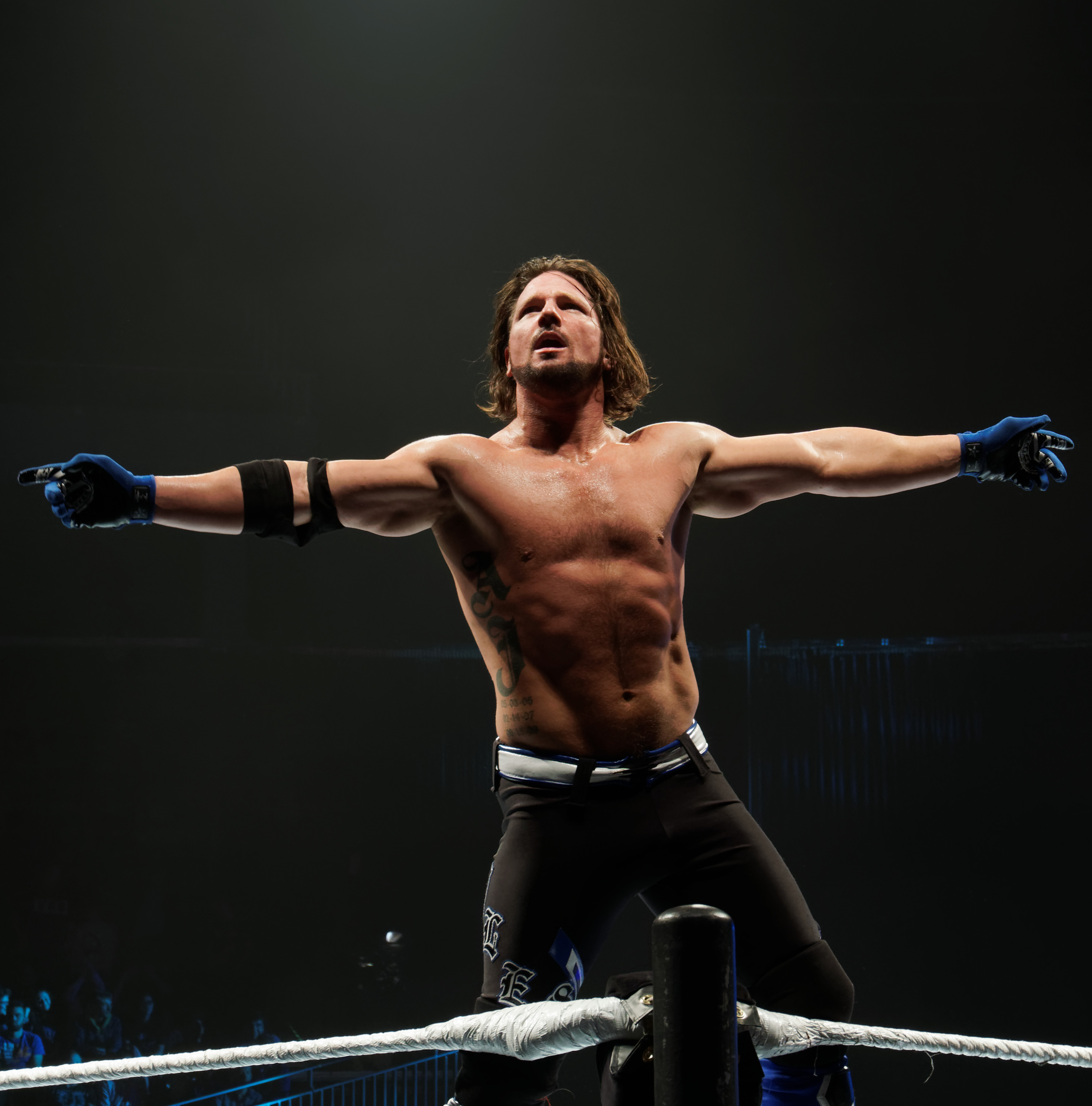 WWE Live WrestleMania Revenge AJ Styles def. Chris Jericho